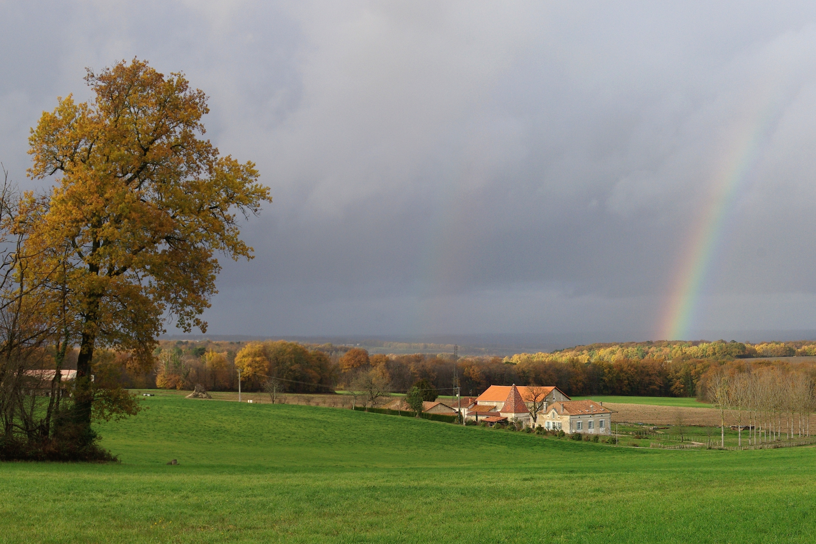 Farmhouse of Chariaud and woods of Labrousse, seen from D 137, Saint-Romain, Charente, France.